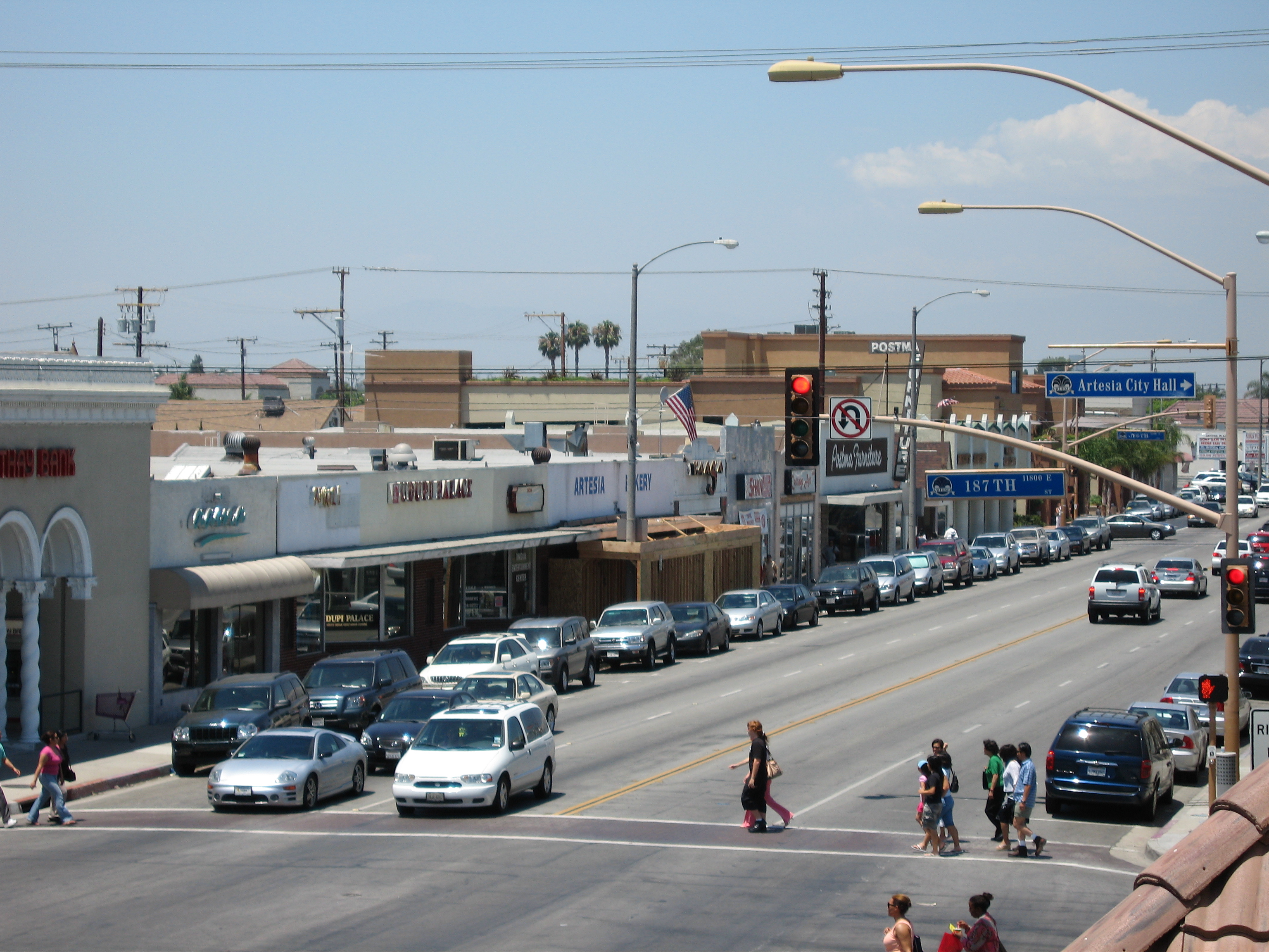 Intersection of Pioneer Blvd. and 187th Street in Artesia, California